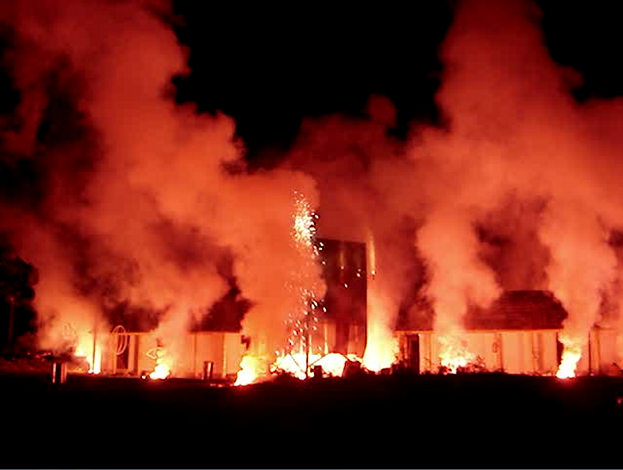 Fireworks-show at the Cinderhill Temple in the fictional world of Dragonbane